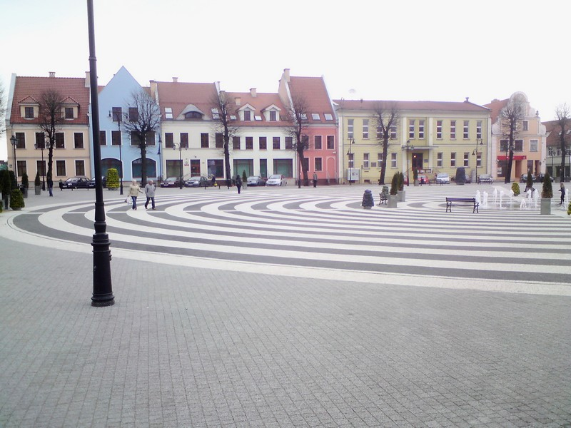 The western buildings of market in Gryfice